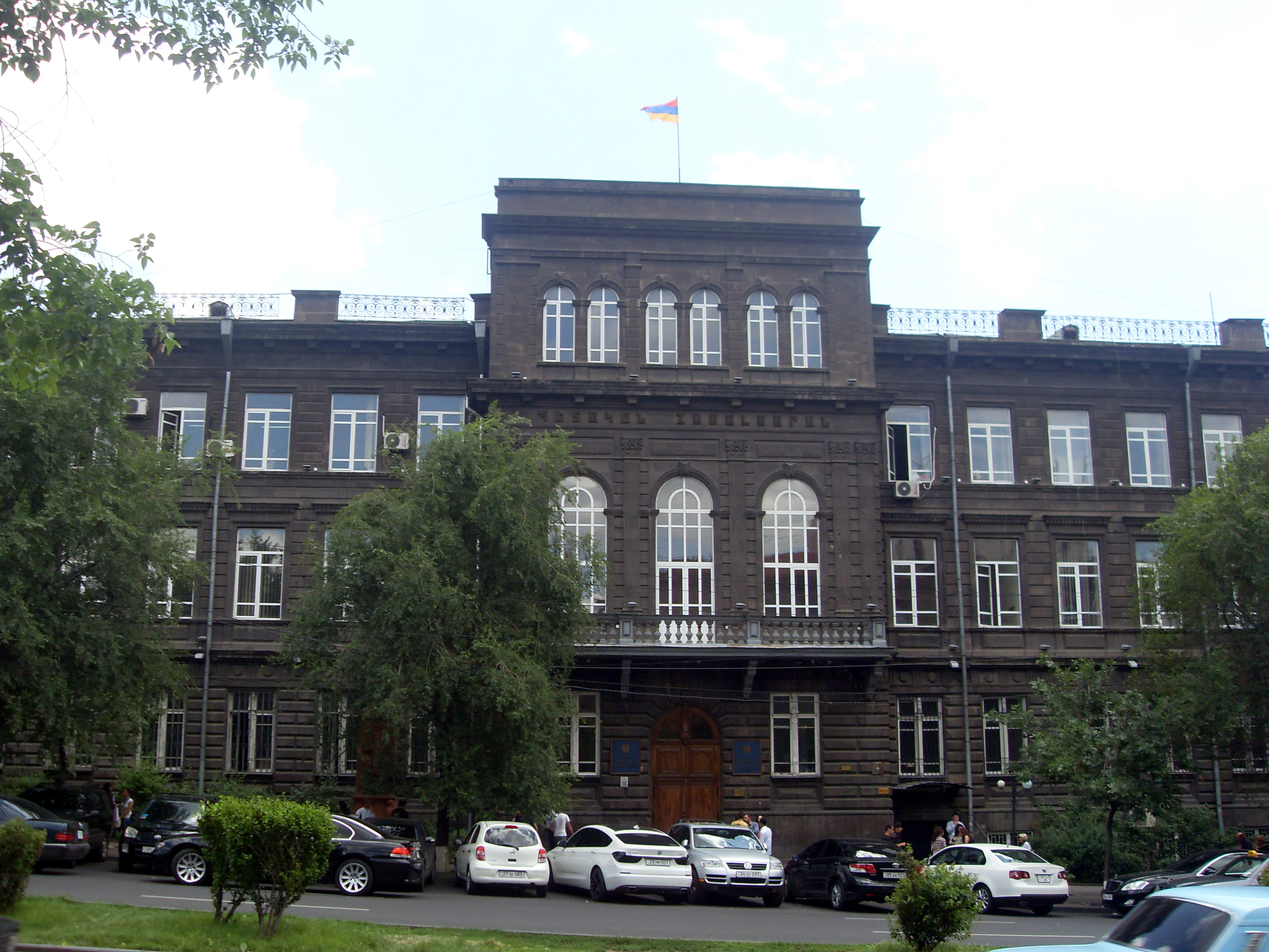 Old building of Yerevan State University, 1905. Yerevan, Abovyan str. 52 6/177